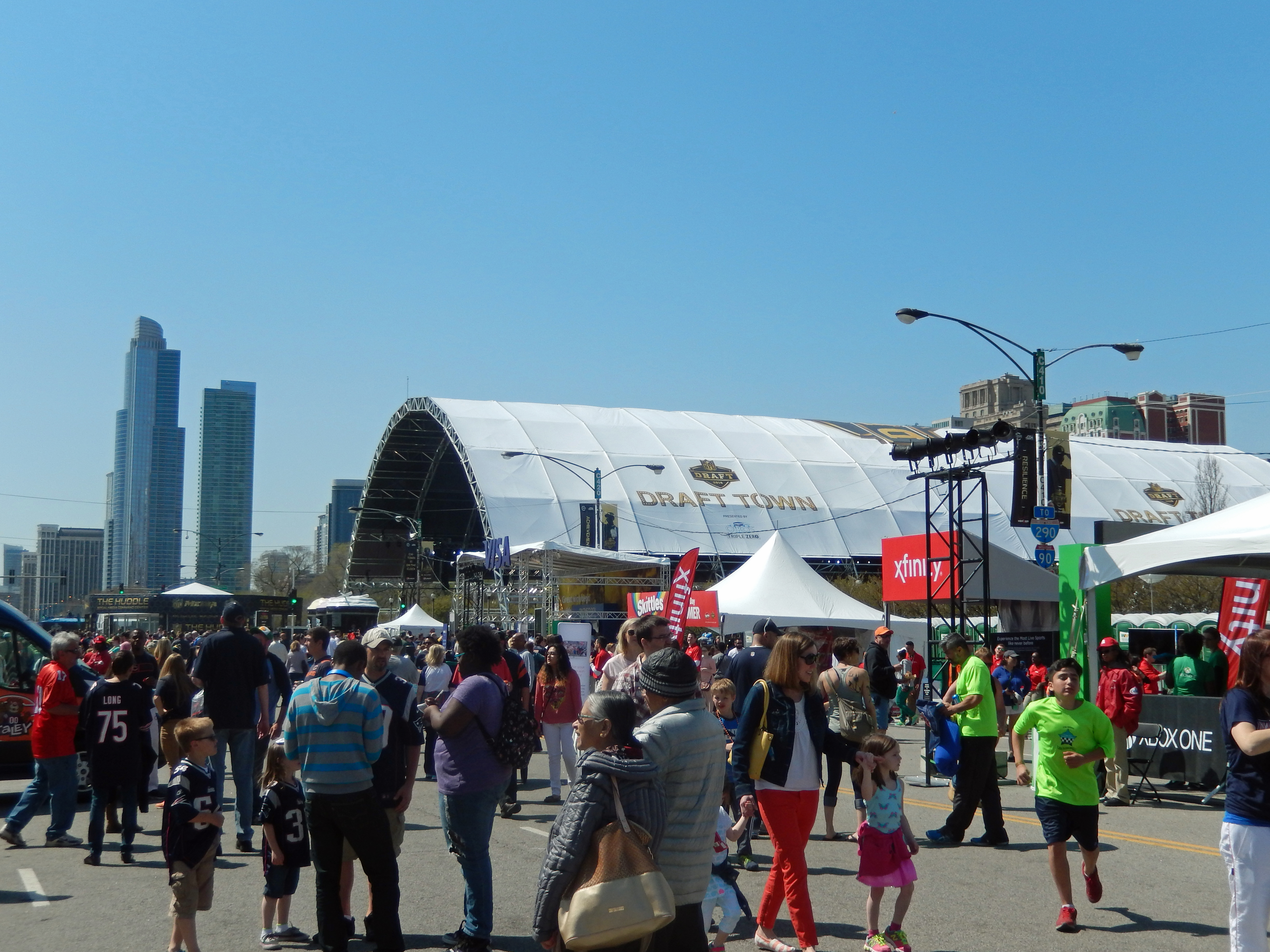 Draft Town, Chicago 5/2/2015